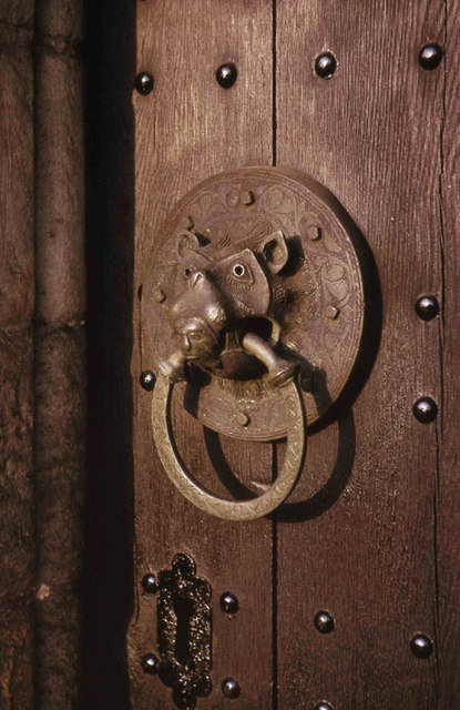 Adel, St John the Baptist Norman Door Ring (1963) The original Norman bronze piece shown was stolen in 2002 and was replaced in replica. The handle is in the form of a monster’s head, probably a lion, with a mouth swallowing a man. Acknowledgements. 1. Nikolaus Pevsner. The Buildings of England. Yorkshire: The West Riding. 1959. 2. Leeds / Susan Wrathmell with John Minnis / and contributions by Janet Douglas ... [et al.] 2005. 3. Leodis - a photographic archive of Leeds.